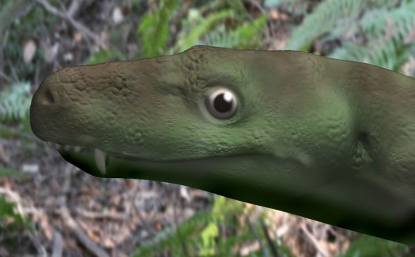 Aelurosaurus felinus, Late permian of South Africa. Digital.